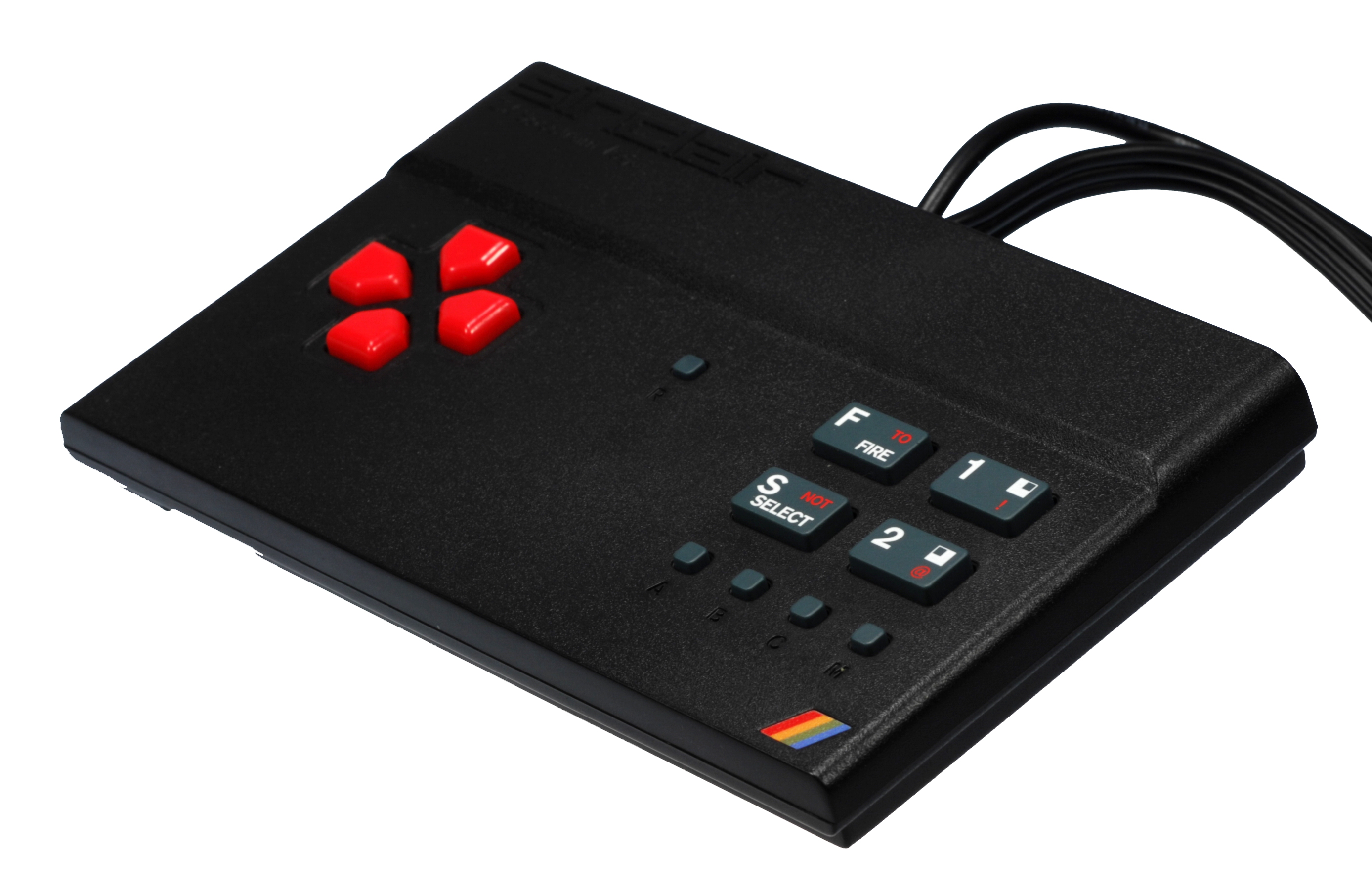 The ZX Spectrum Vega TV Game Console, made by Retro Computers.